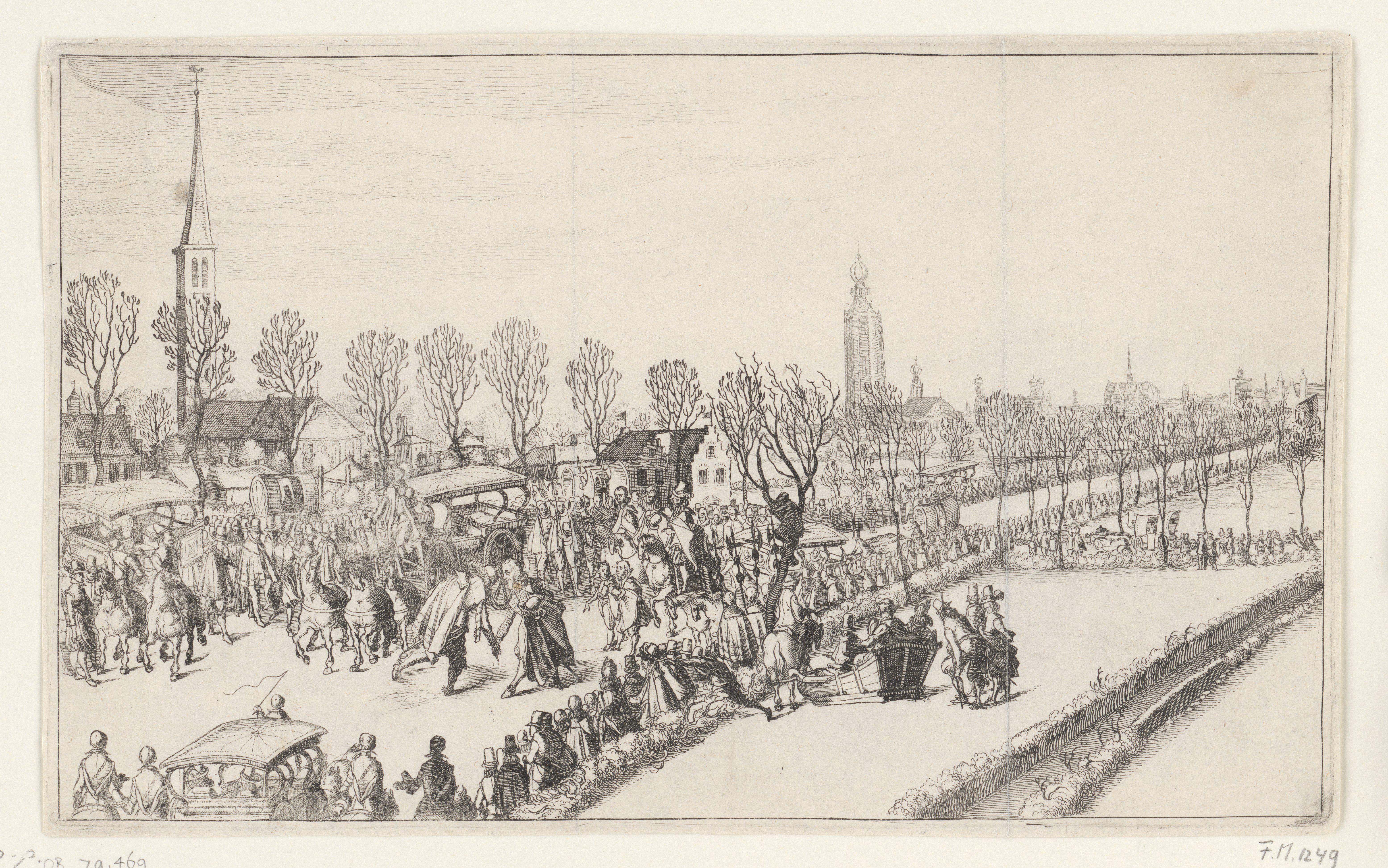 Arrival of five Spanish ambassadors in Rijswijk, the Netherlands, february 1608